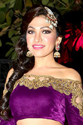 Tulsi Kumar celebrated her first Lohri post-wedding in Delhi